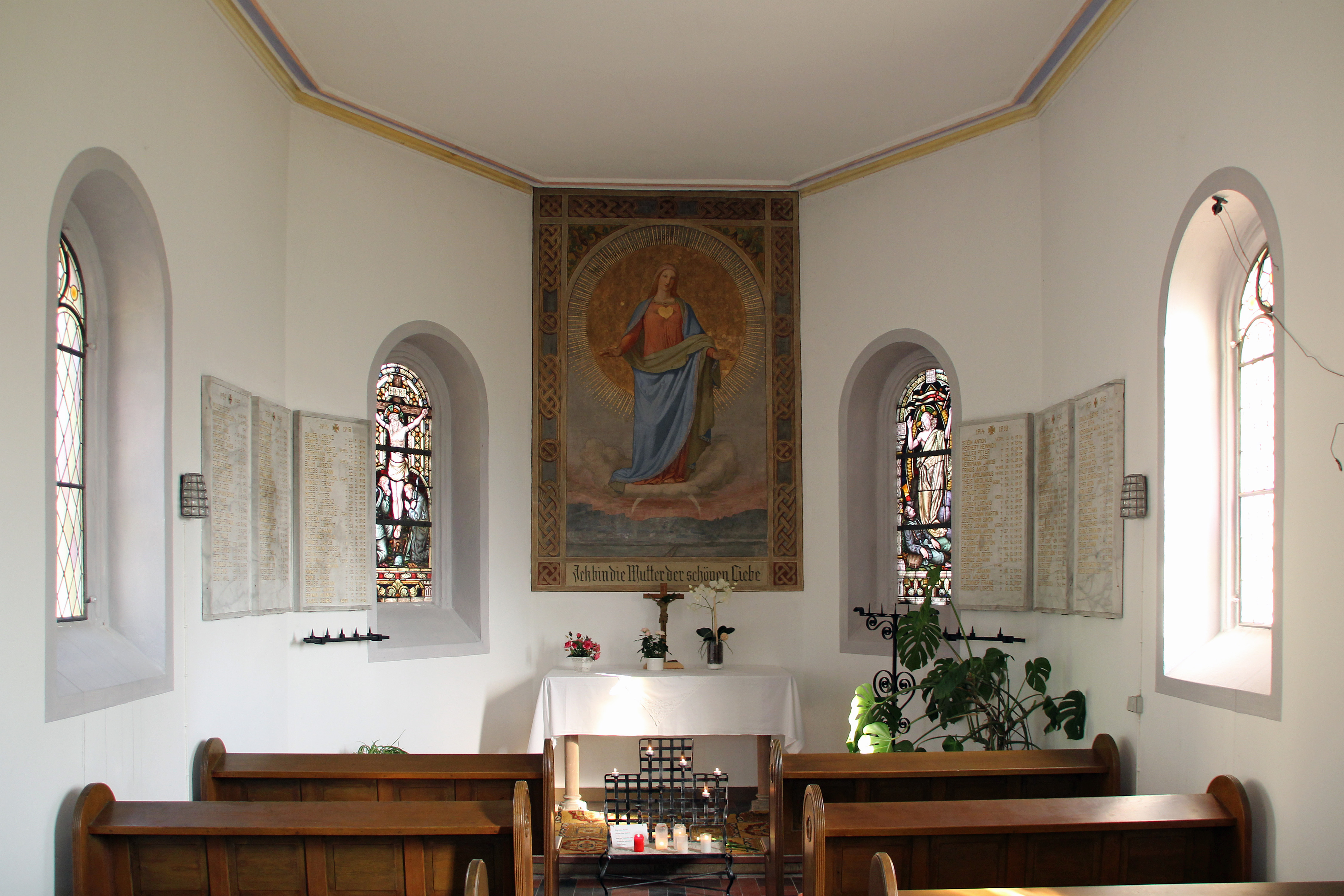 Chapel „Zur Mutter der schönen Liebe“ in Koblenz